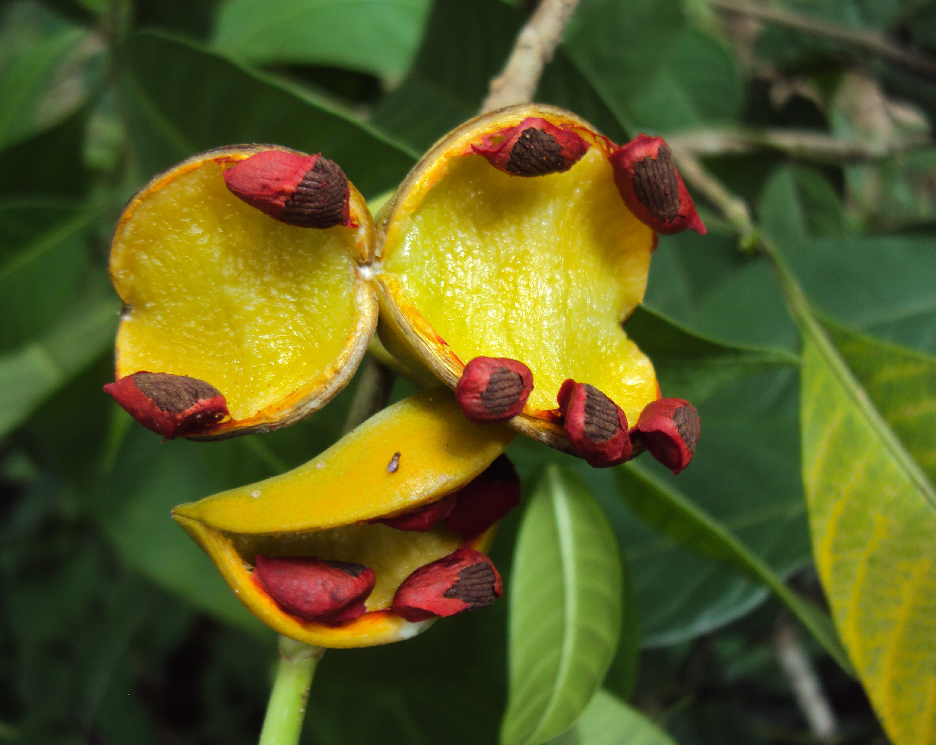 Tabernaemontana alternifolia